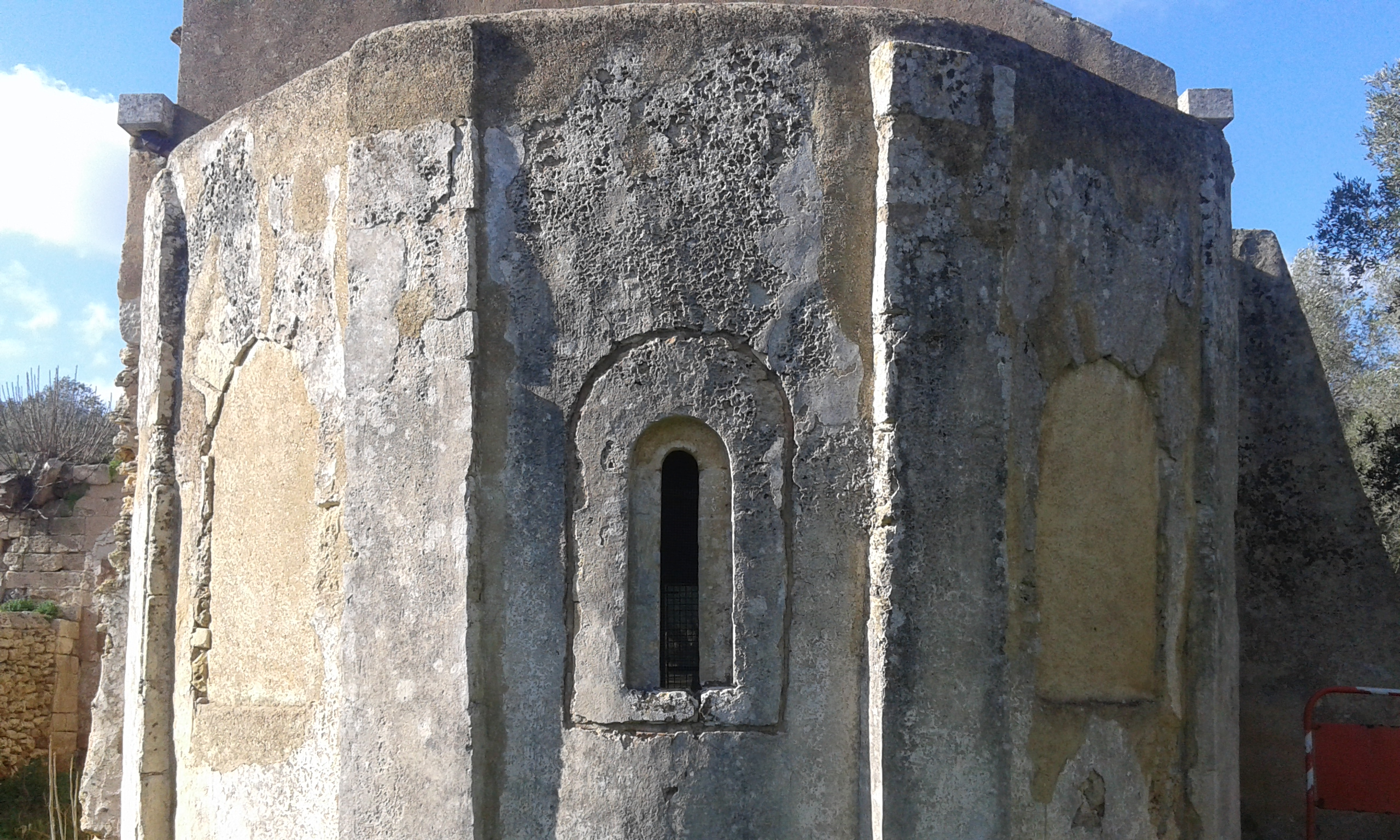 Church1